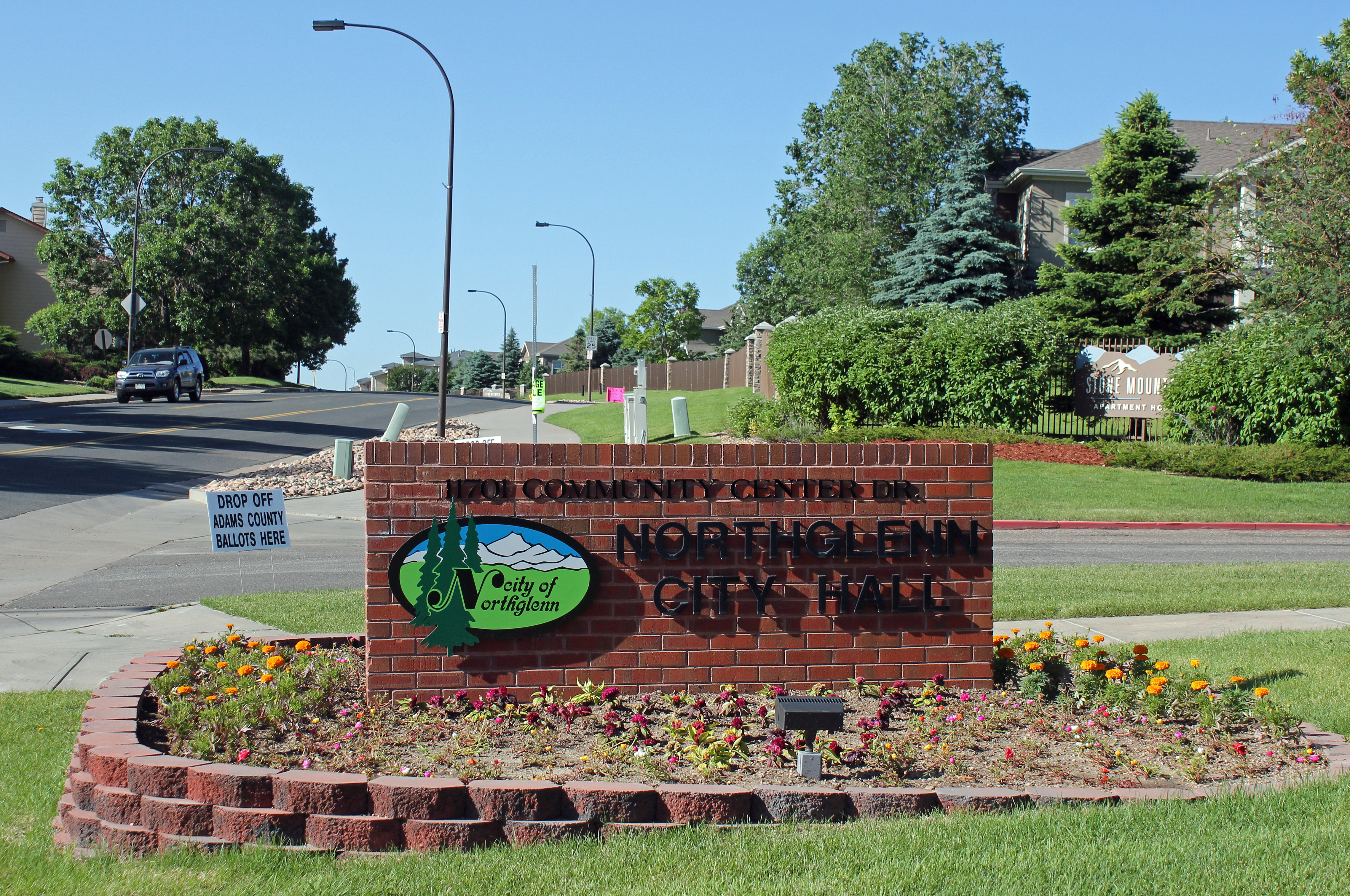 The sign for the City of Northglenn City Hall, located at 11701 Community Center Drive Northglenn, Colorado 80233. The city hall building is not visible in the photo.